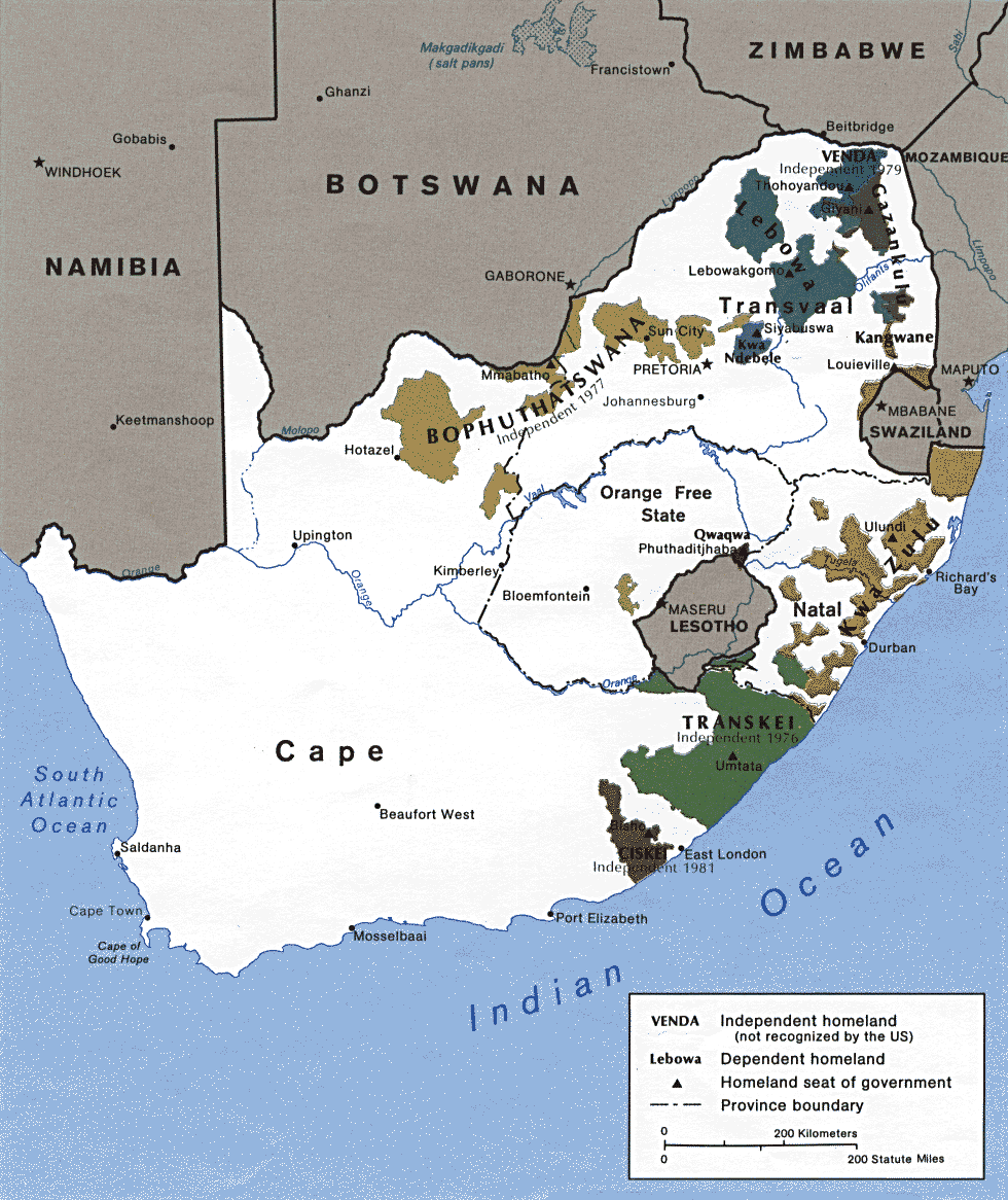 Homelands (Bantustans) in South Africa, as they were in 1986.